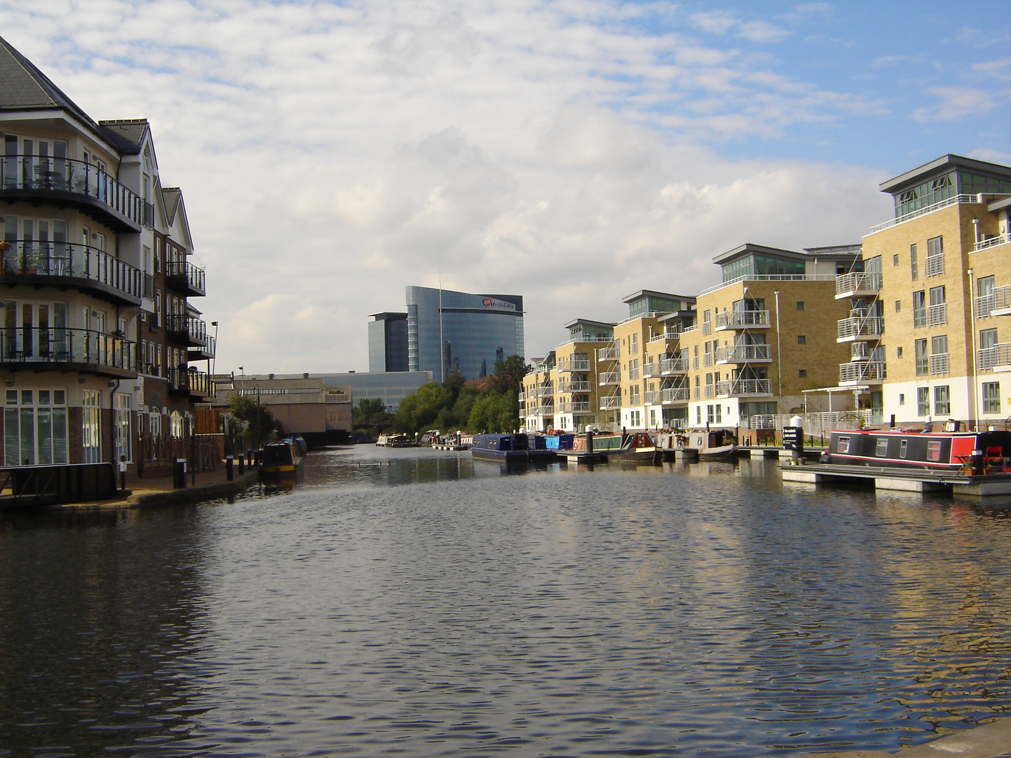 The pool of Brentford Lock,with GSK building in background